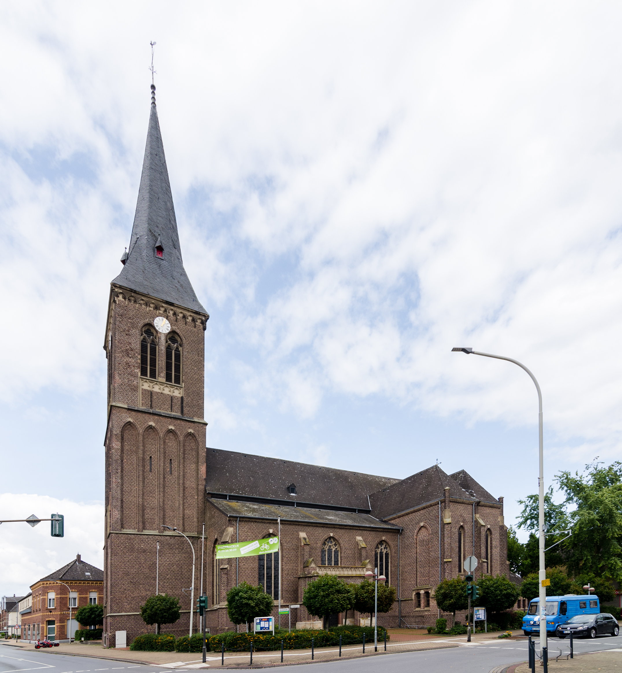 Alpen (North Rhine-Westphalia, Germany) – Catholic Saint Ulrich Church – view from the south